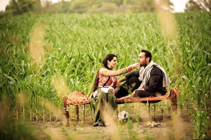 Lahore Pakistan